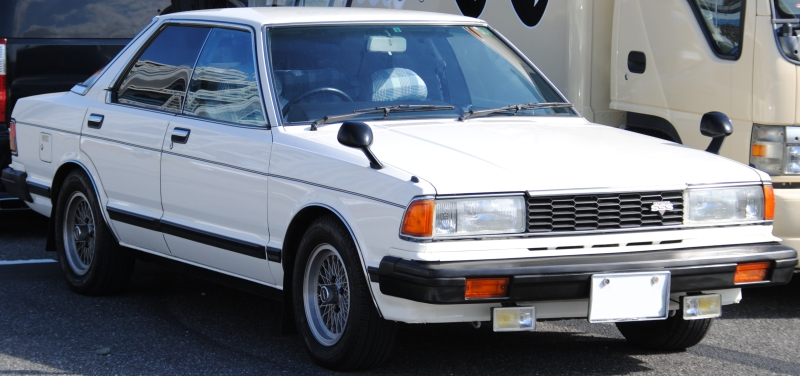 Nissan Bluebird hardtop